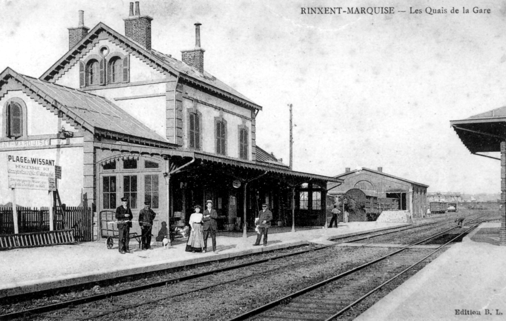 Postcard of the railway station of Rinxent in the years 1900